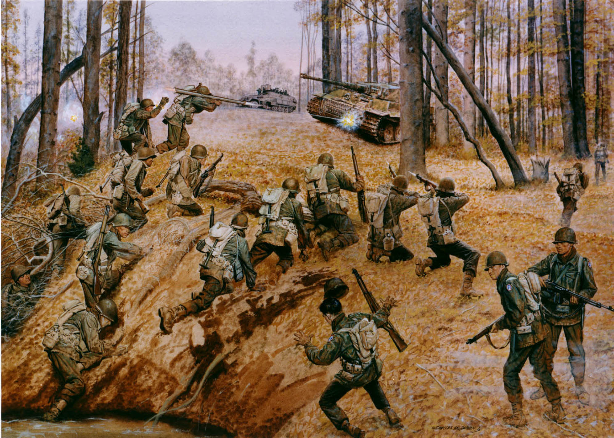 DA Poster 21-91 France, October 1944. The rain and chill which precedes winter in the Vosges mountains had started. The 442d Regimental Combat Team was weary and battle-scarred after fighting in Italy. Most of its members were Americans of Japanese ancestry. Men with names like Sumida, Miyamoto, Takemoto and Tanaka would write a bright page in the history of the U.S. Army. On 27 October, the 442d was called on to rescue a surrounded U.S. battalion. They attacked the heavily fortified defenses of a superior German force. Fighting was desperate, often hand-to-hand. By 30 October, nearly half the regiment had become casualties. Then, something happened in the 442d. By ones and twos, almost spontaneously and without orders, the men got to their feet and, with a kind of universal anger, moved toward the enemy positions. Bitter hand-to-hand combat ensued as the Americans fought from one fortified position to the next. Finally, the enemy broke in disorder. "Go For Broke" was more than a motto for the 442d Regimental Combat Team. At a special ceremony to honor the 442d, seeing only a few hundred men, the Divison Commander asked why the whole regiment was not present. Colonel Charles W. Pence is said to have replied. "Sir ... this is the entire regiment."